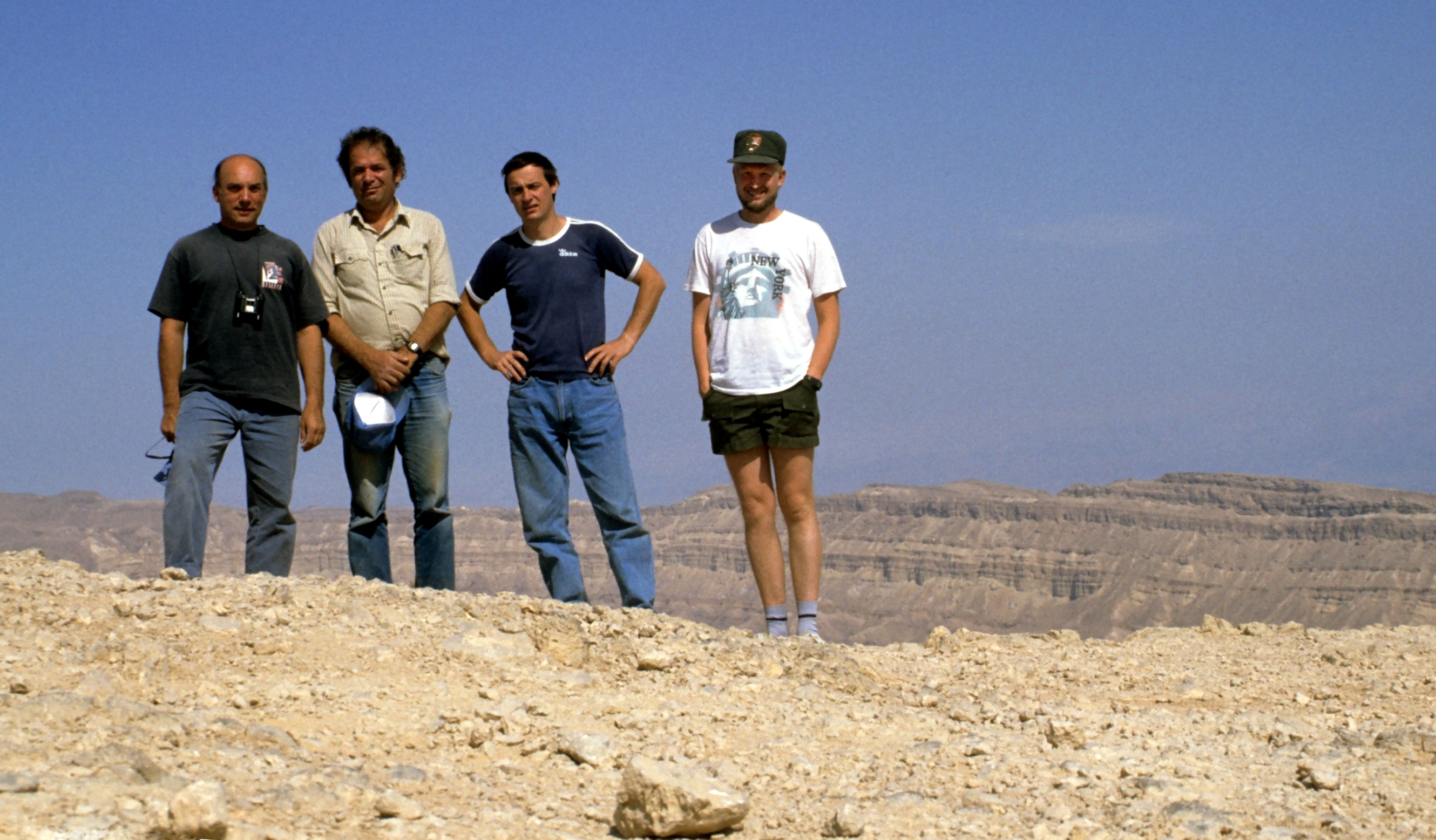 Roman Zlotin, Yoram Ayal, Ivan Chernov, Ivan Vtorov. Israel, 1991